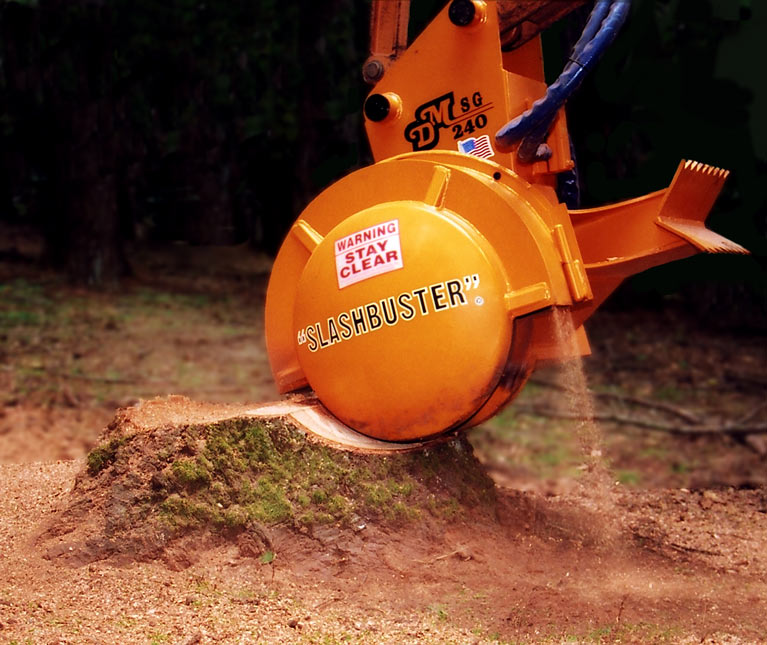 Image of a "Slashbuster" backhoe stump grinder attachment grinding a hardwood tree stump. Shows cutting tooth and ground wood chips. Stump approximately thirty inches in diameter at height in picture.